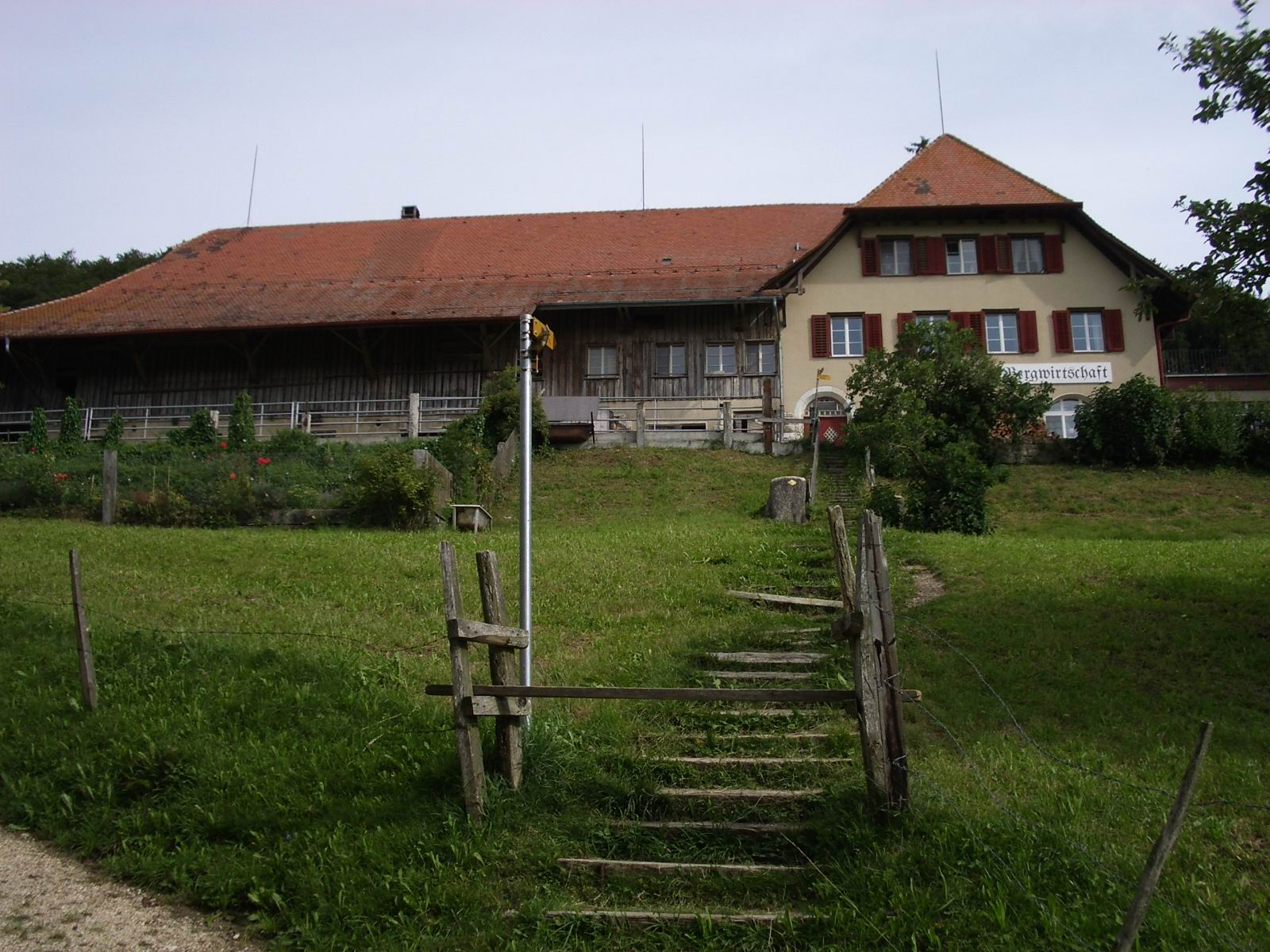 Hägendorf SO, Switzerland